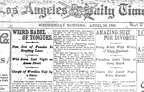 Old LA Times front page concerning the Azusa Street Revival. Image obtained from and is in the Public Domain.